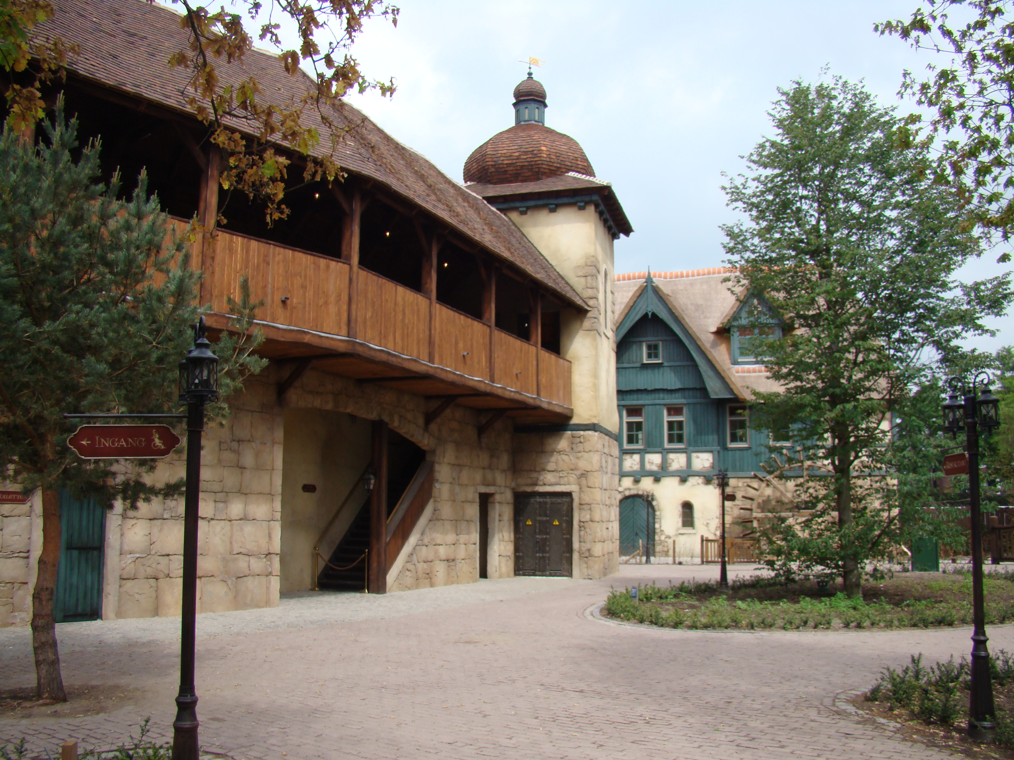 Impressions of Raveleijn, Efteling at Kaatsheuvel